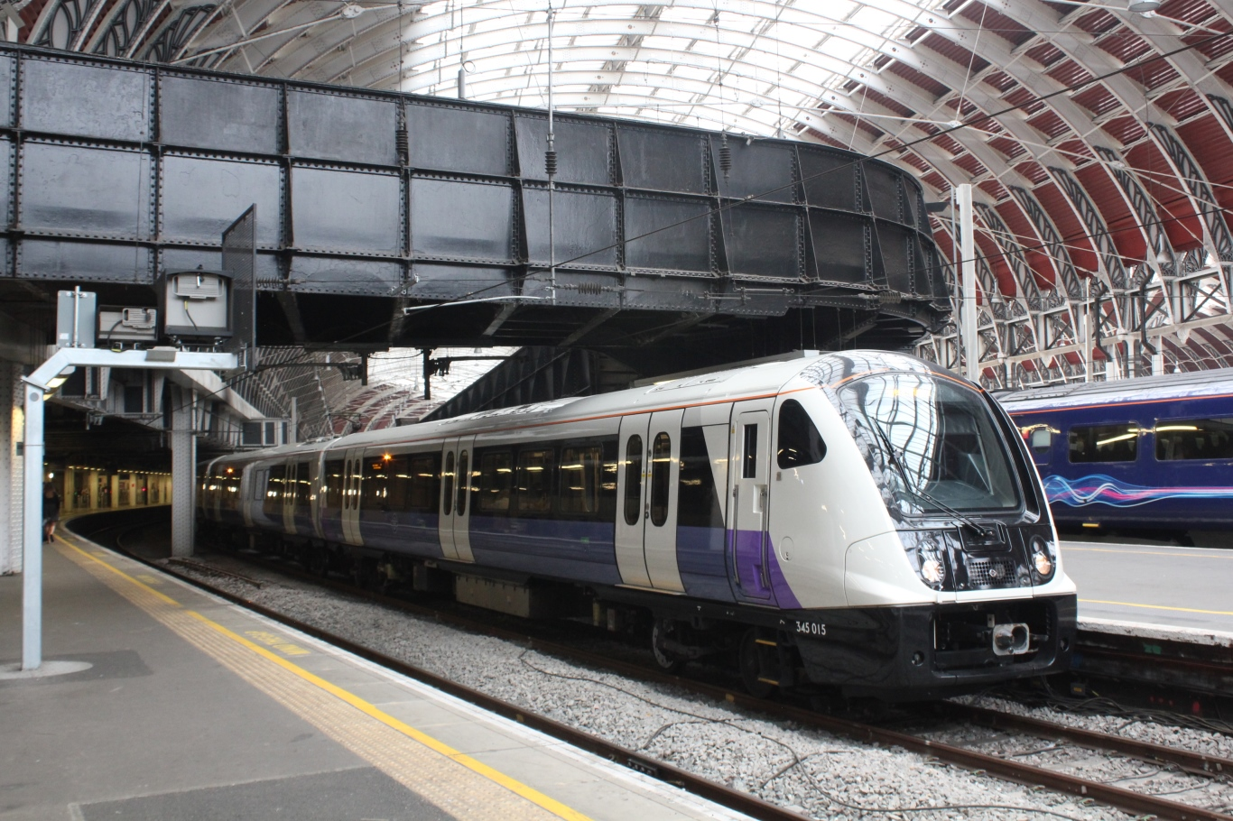 New class 345 'Aventra' electric unit 345015 at London Paddington main line station with TfL Rail service to Hayes & Harlington. This route is scheduled to be transferred to the new Elizabeth Line platforms which are being built under the main line station when the 'Crossrail' tunnels are brought into use.